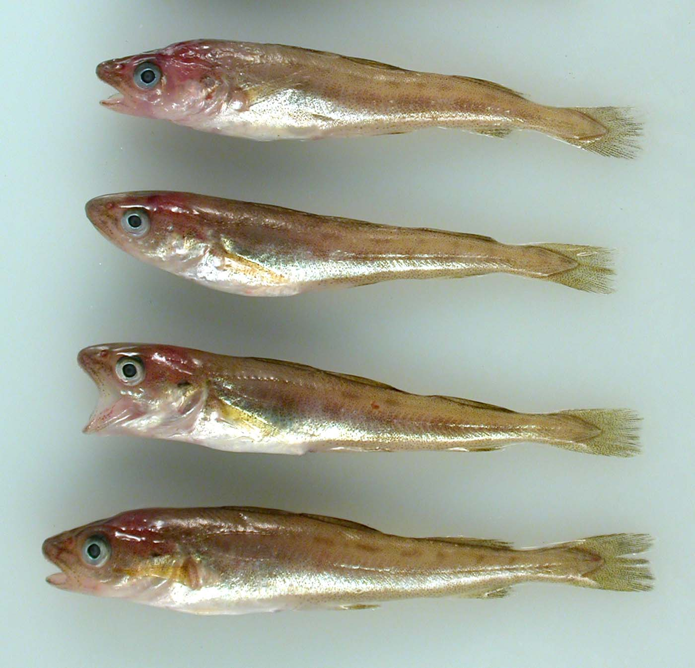 Saffron Cod Juveniles Eleginus gracilis (Tilesius, 1810)